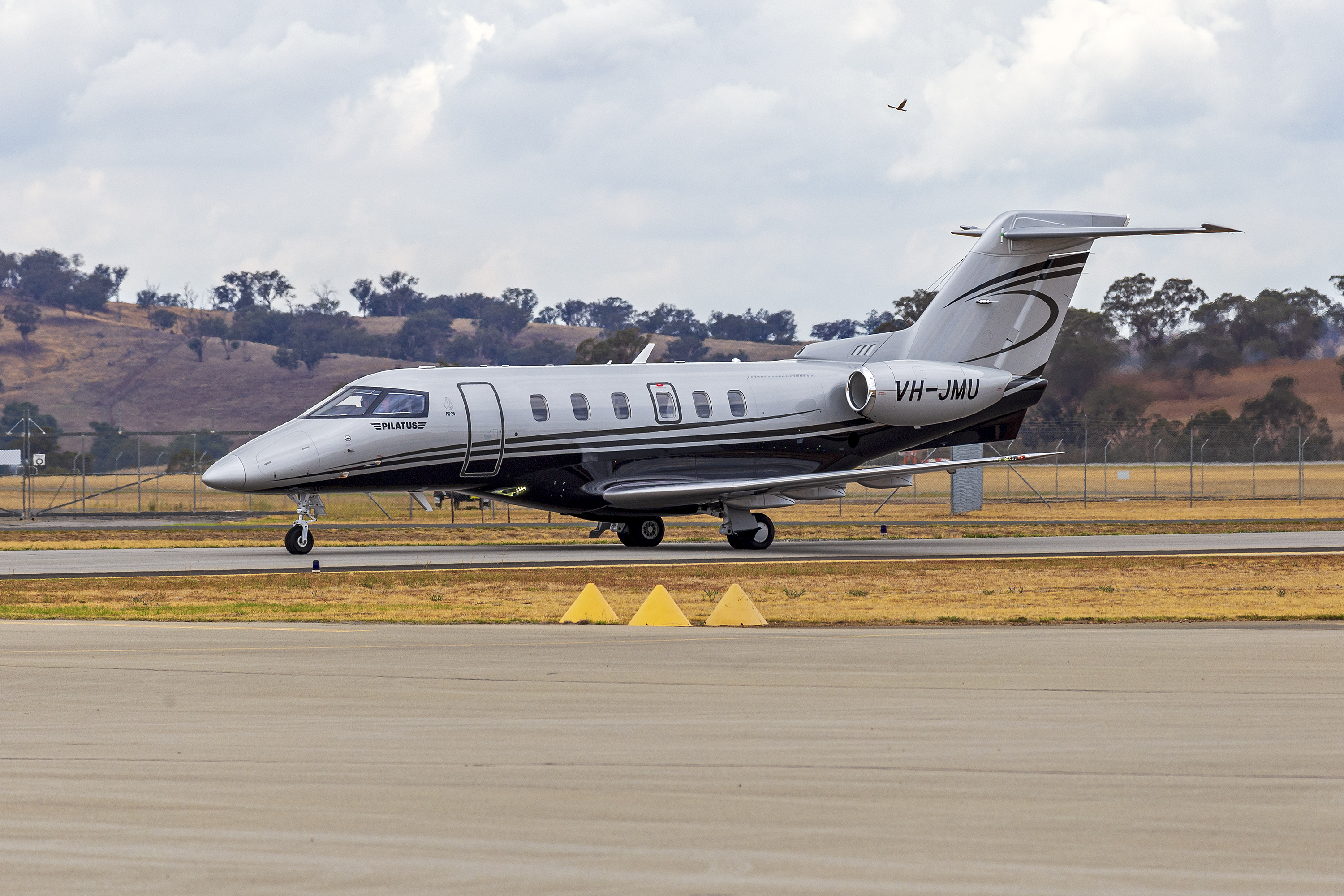 MT Air Charter (VH-JMU) Pilatus PC-24 taxiing at Wagga Wagga Airport.